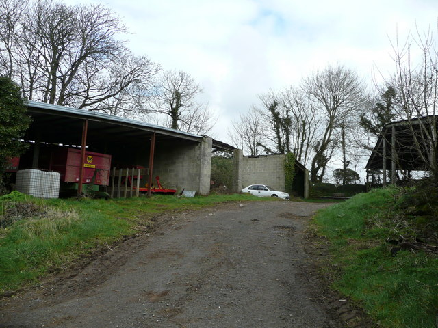 Farm buildings at Trebudannon Part of Hawkes Farm.